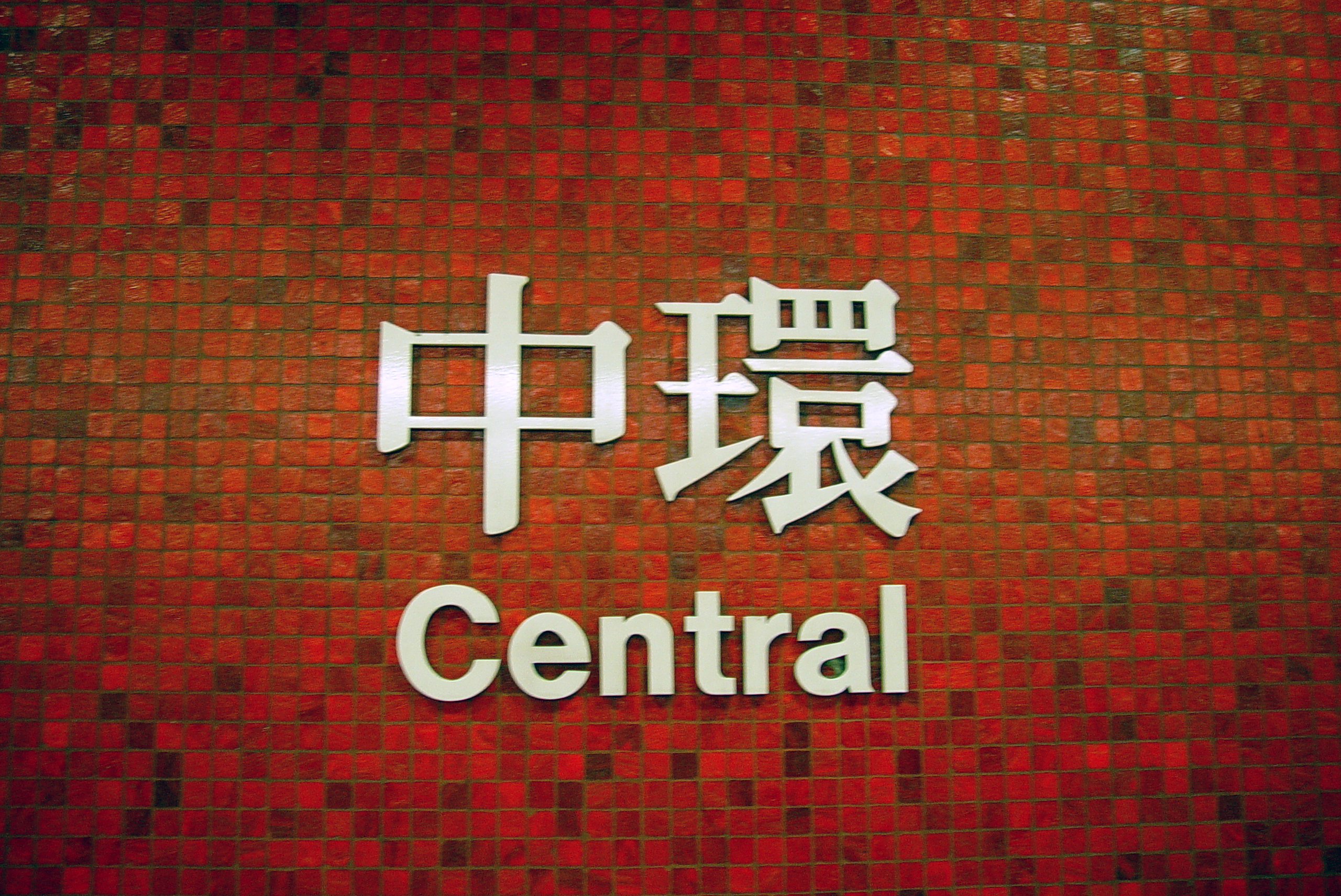 MTR Central station platform name sign